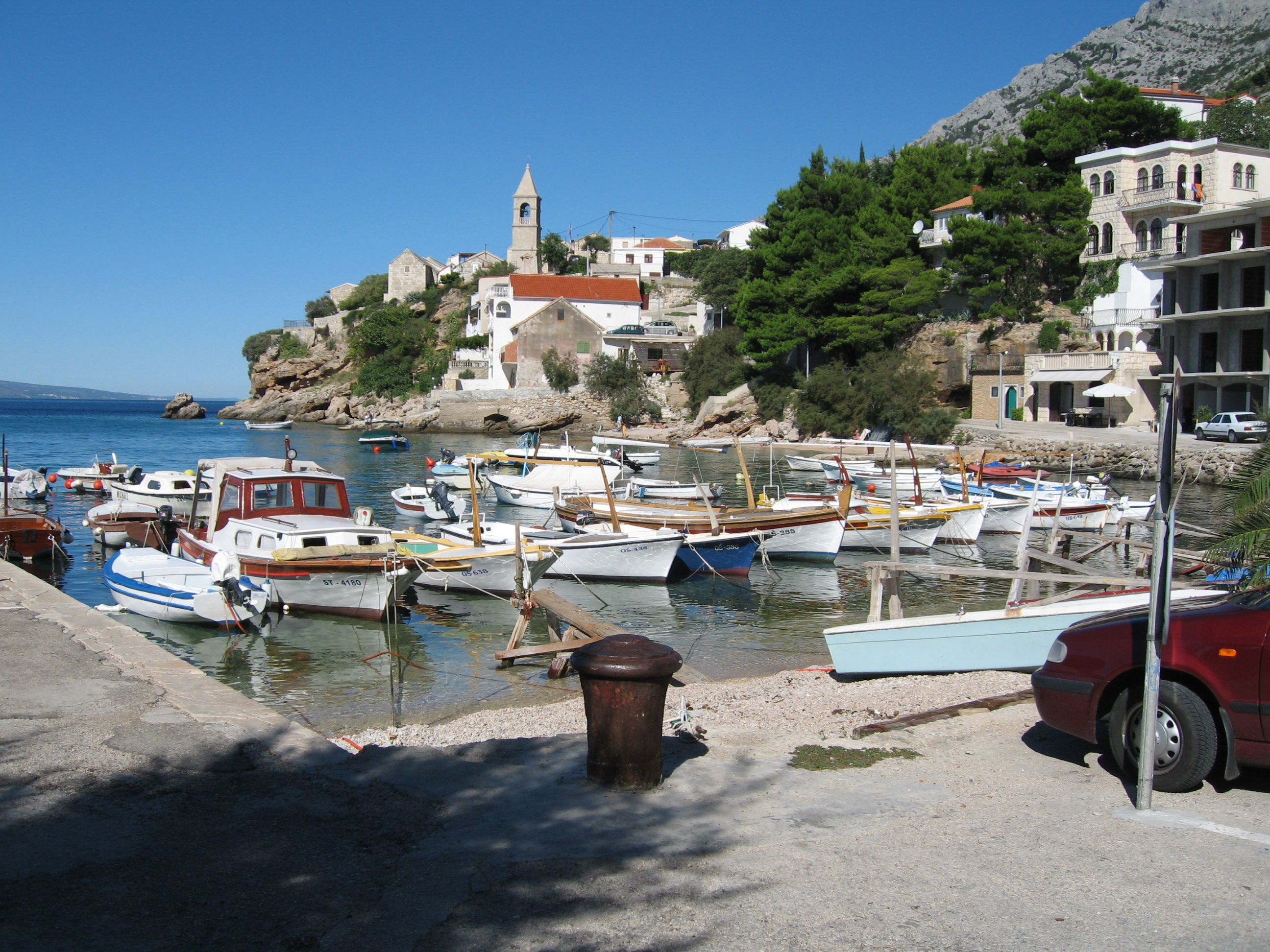 This GIF can be ussed by anyone. It is made by myself (Martin van Gijn) It is a small village in Croatia, (harbor)